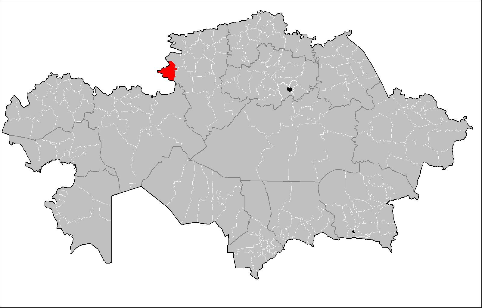 Map of the rayons of Kazakhstan. Created by Rarelibra 16:49, 3 August 2007 (UTC) for public domain use, using MapInfo Professional v8.5 and various mapping resources.